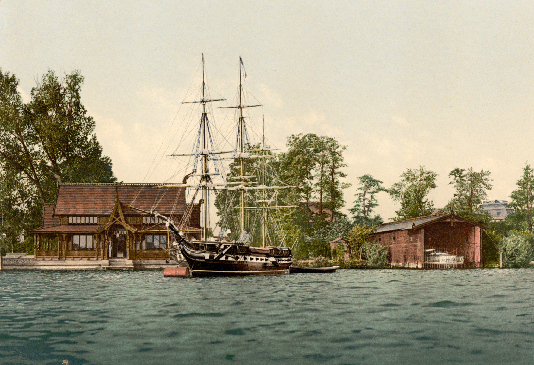 Sailor's station, Potsdam, Germany